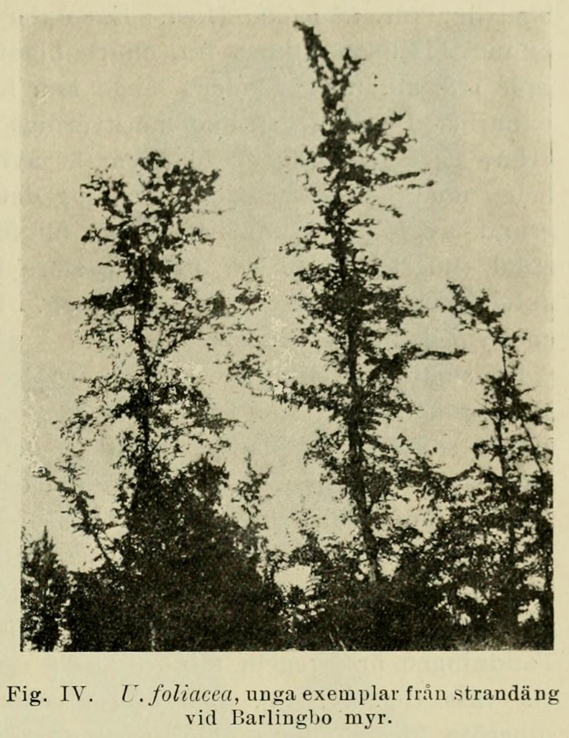 Ulmus foliacea, young specimens from the meadow at Barlingbo marsh